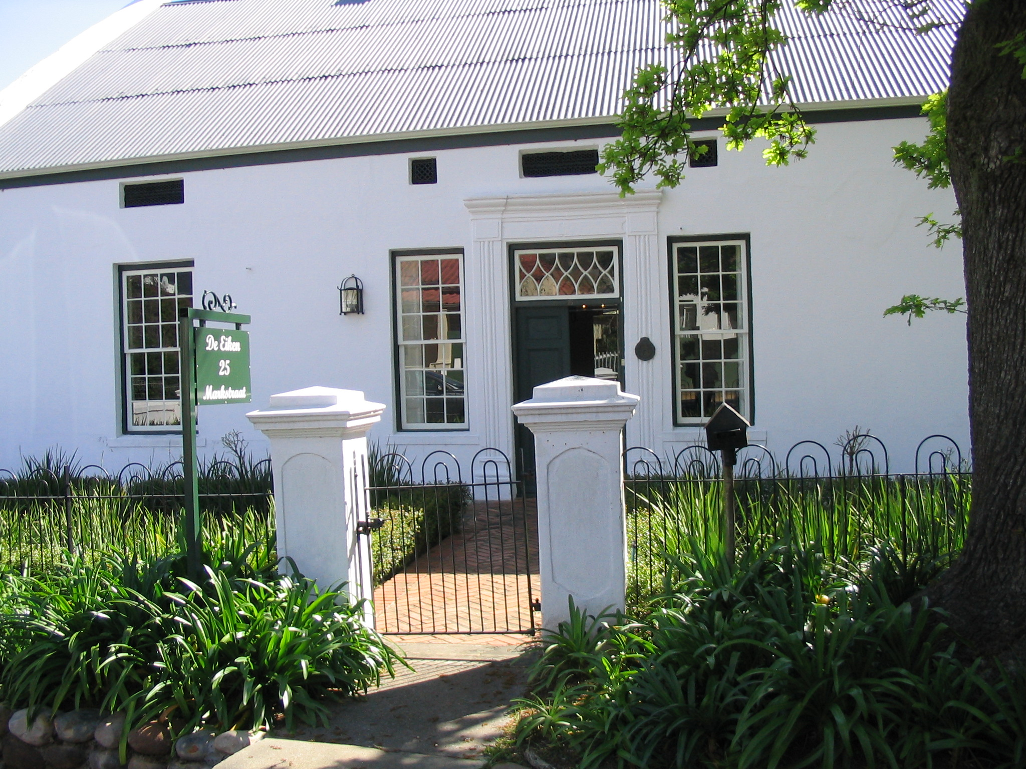 This house, named "De Eiken", was occupied from 1854 to 1898 by Carl Otto Hager, well-known church architect, photographer and painter. This media shows a South African Protected Site with SAHRA file reference 9/2/084/0129.